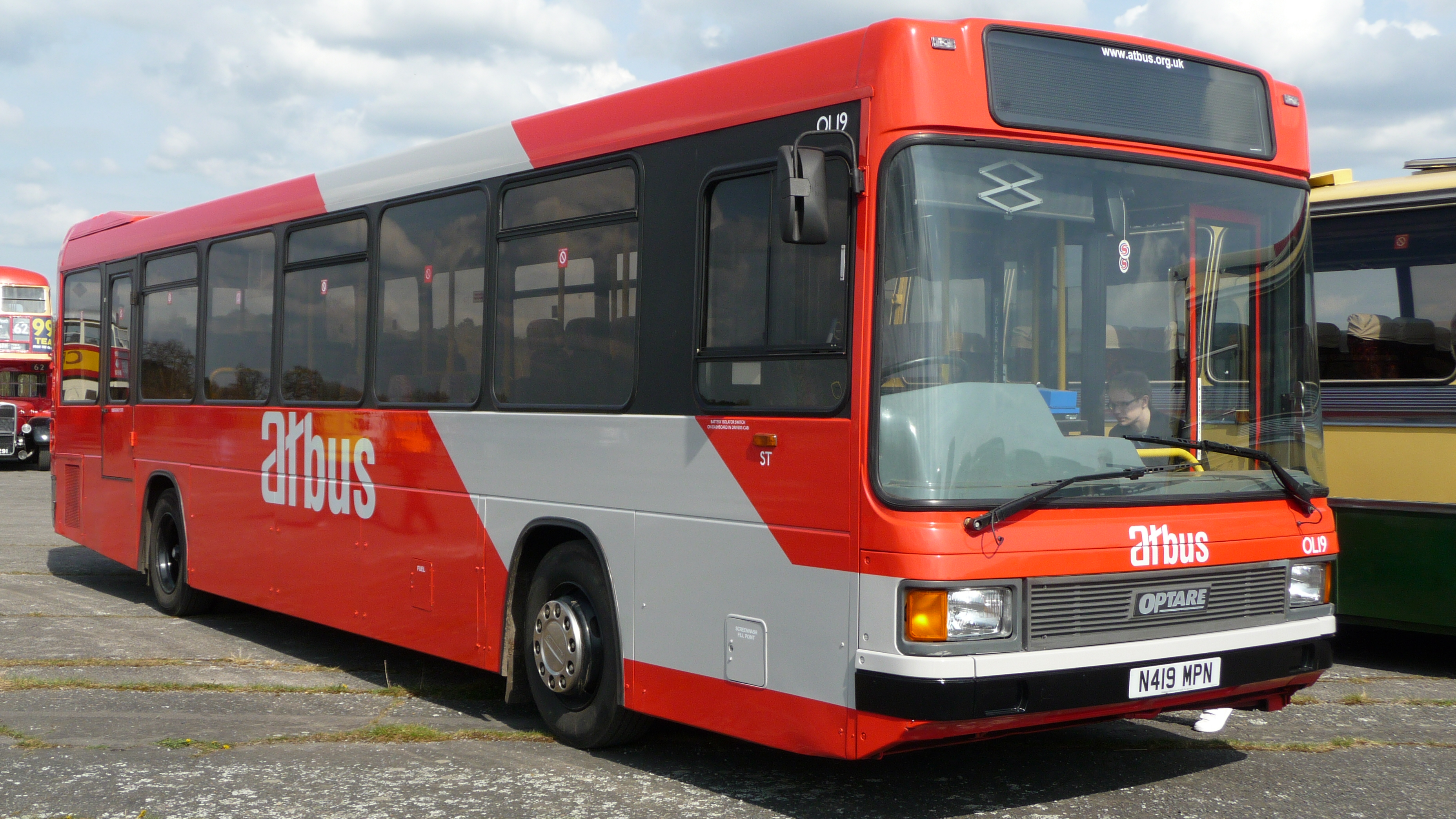 Atbus's OL19 (N419 MPN), a Dennis Lance/Optare Sigma, at the 2009 Cobham bus rally at Wisley Airfield.